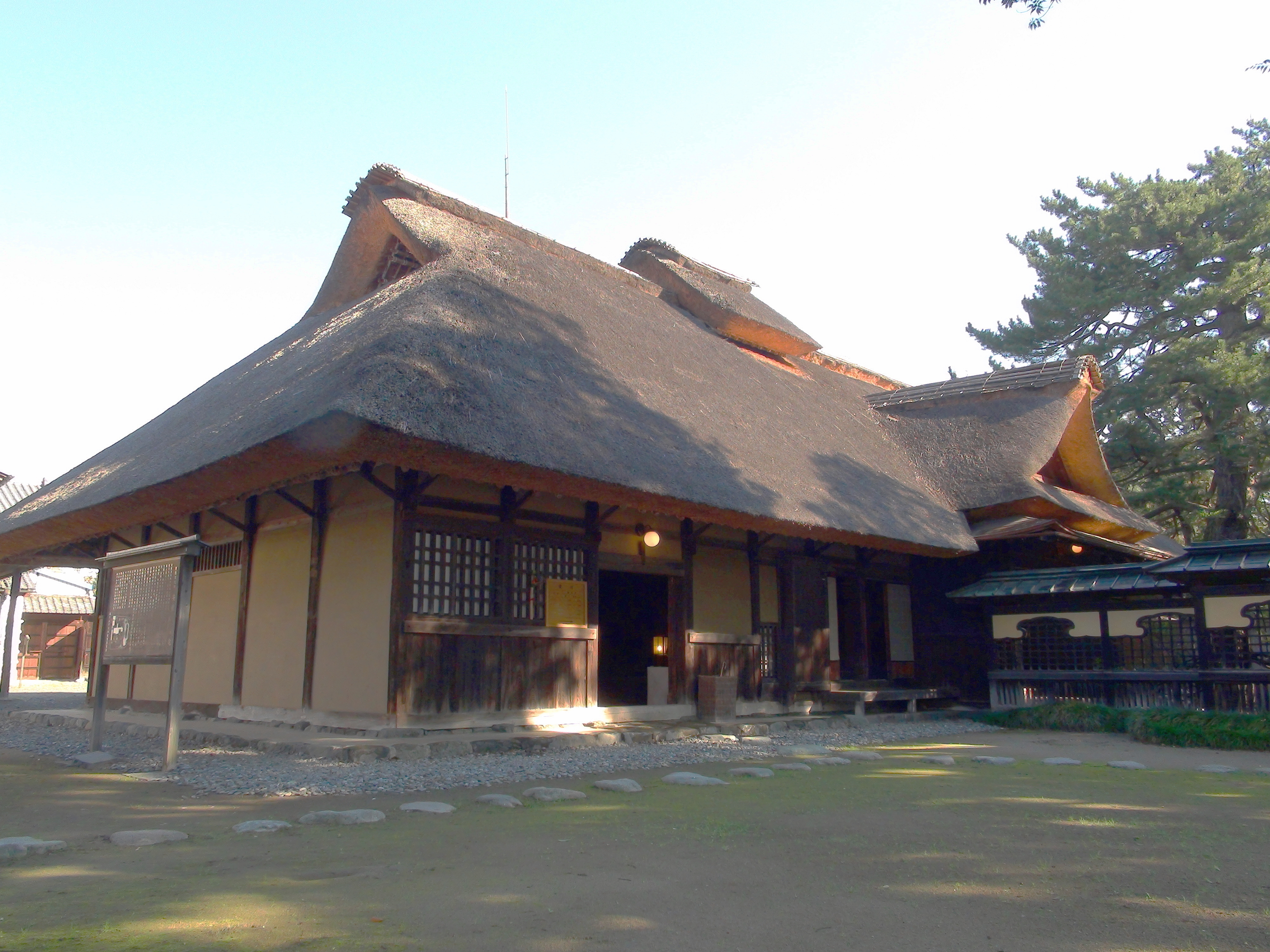 A main building Ando- house Cultural Properties of Japan